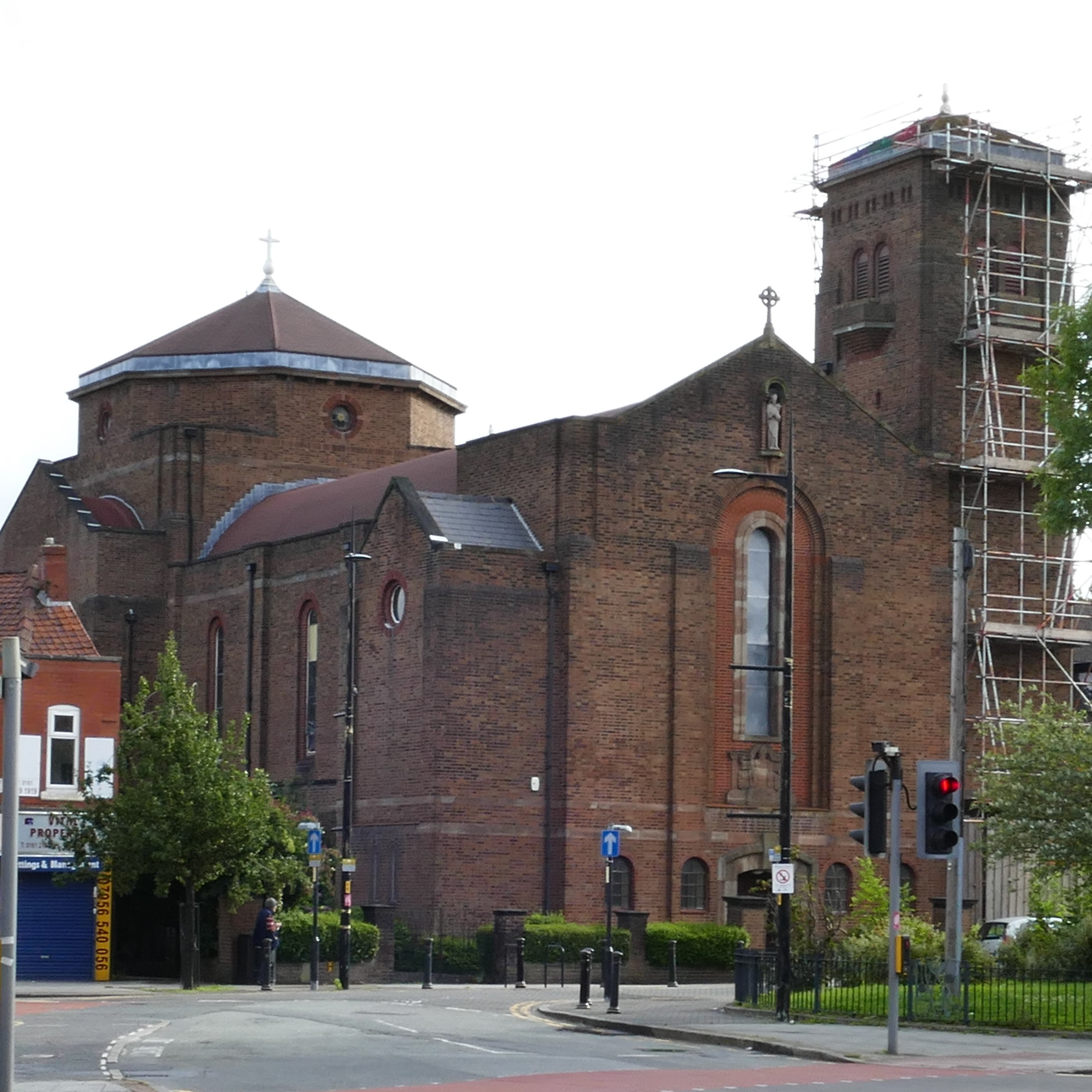 St Dunstan's Church, Manchester